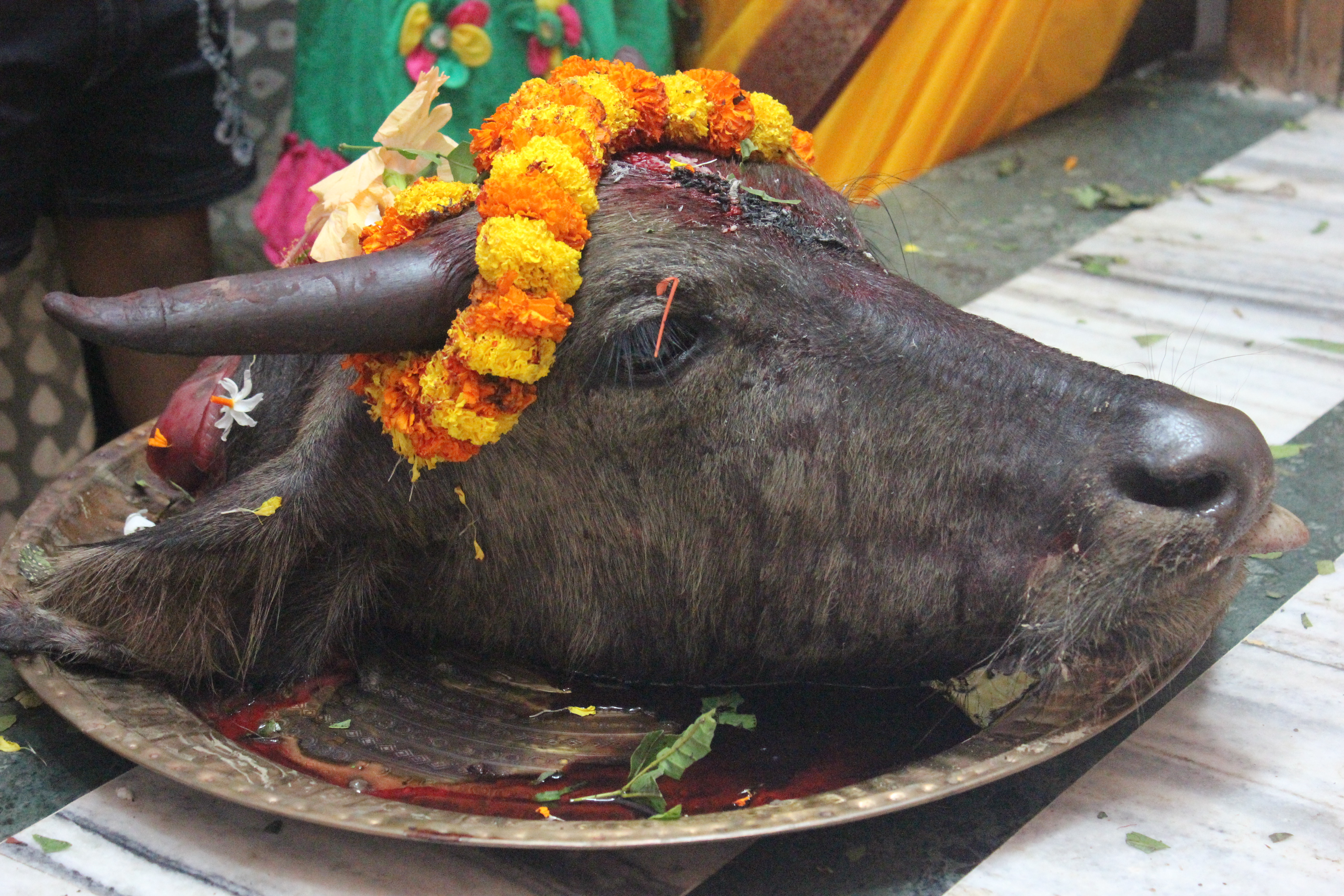 Location: Kalibari Temple, Silchar, Assam